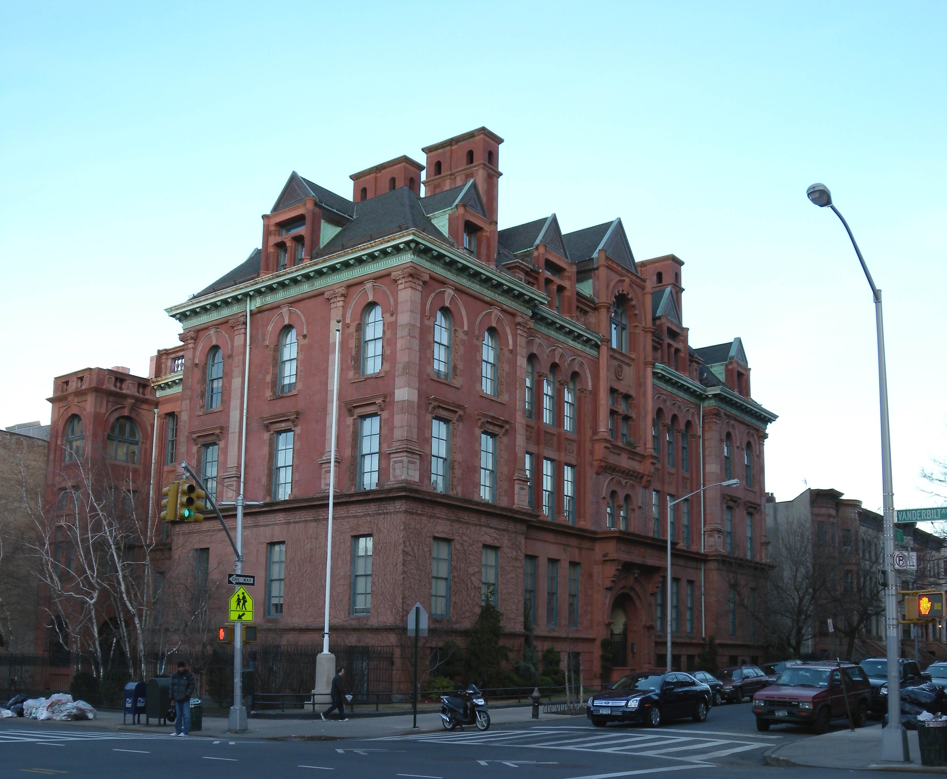 Looking east across Vanderbilt Avenue and Sterling Place at the former Brooklyn PS 9, now New York PS 340, at twilight. Designated Landmark since 1987. Designed by James W. Naughton (1840-98), Superintendent of Buildings of the Board of Education for the City of Brooklyn. EXIF date is wrong due to error by photographer.